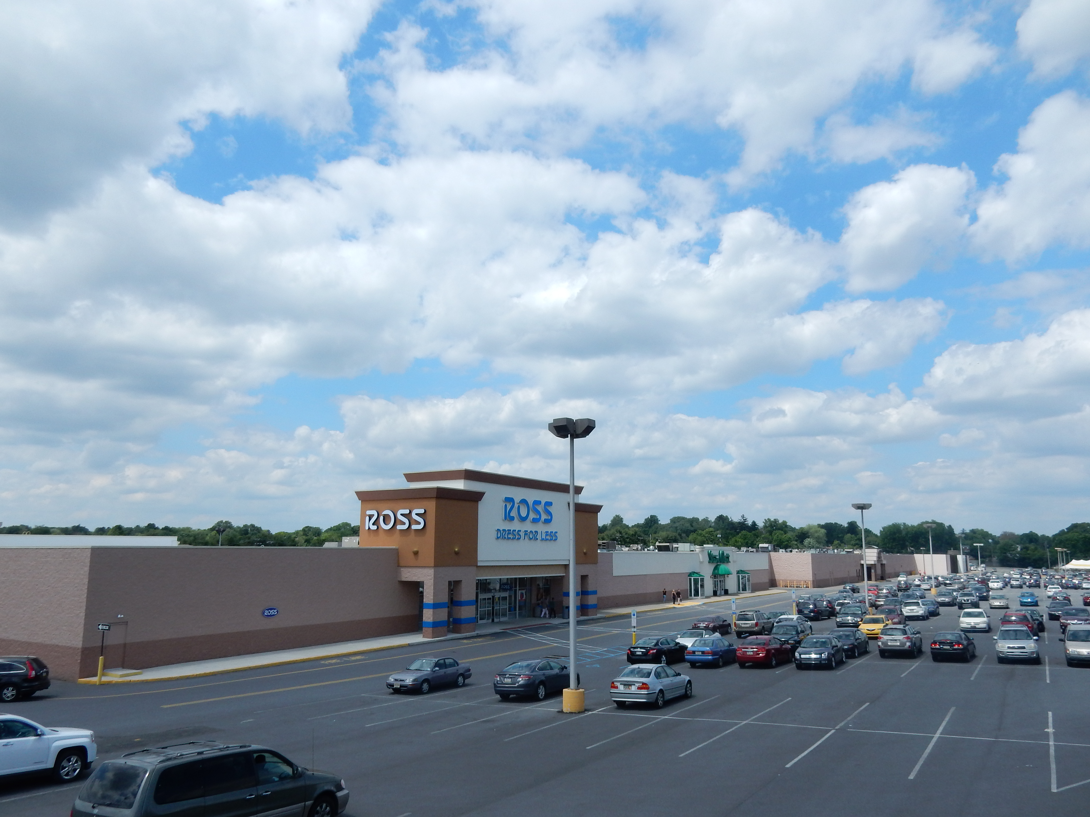 South Mall in Allentown and Salisbury Township, Lehigh County, Pennsylvania.